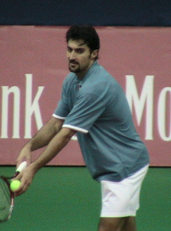 Nenad Zimonjic at 2006 Kremlin Cup